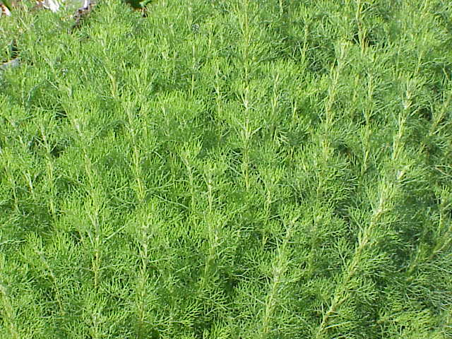 Species: Artemisia abrotanum Family: Compositae Image No. 1